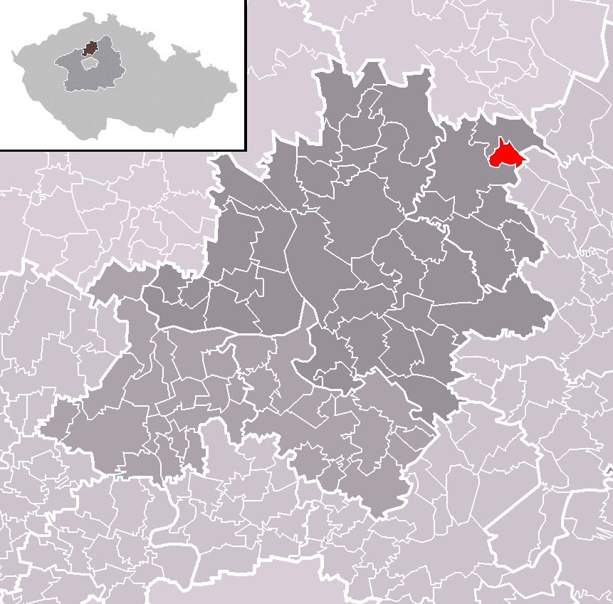 Location of Lobeč municipality within Mělník District and administrative area of Mělník as a Municipality with Extended Competence.